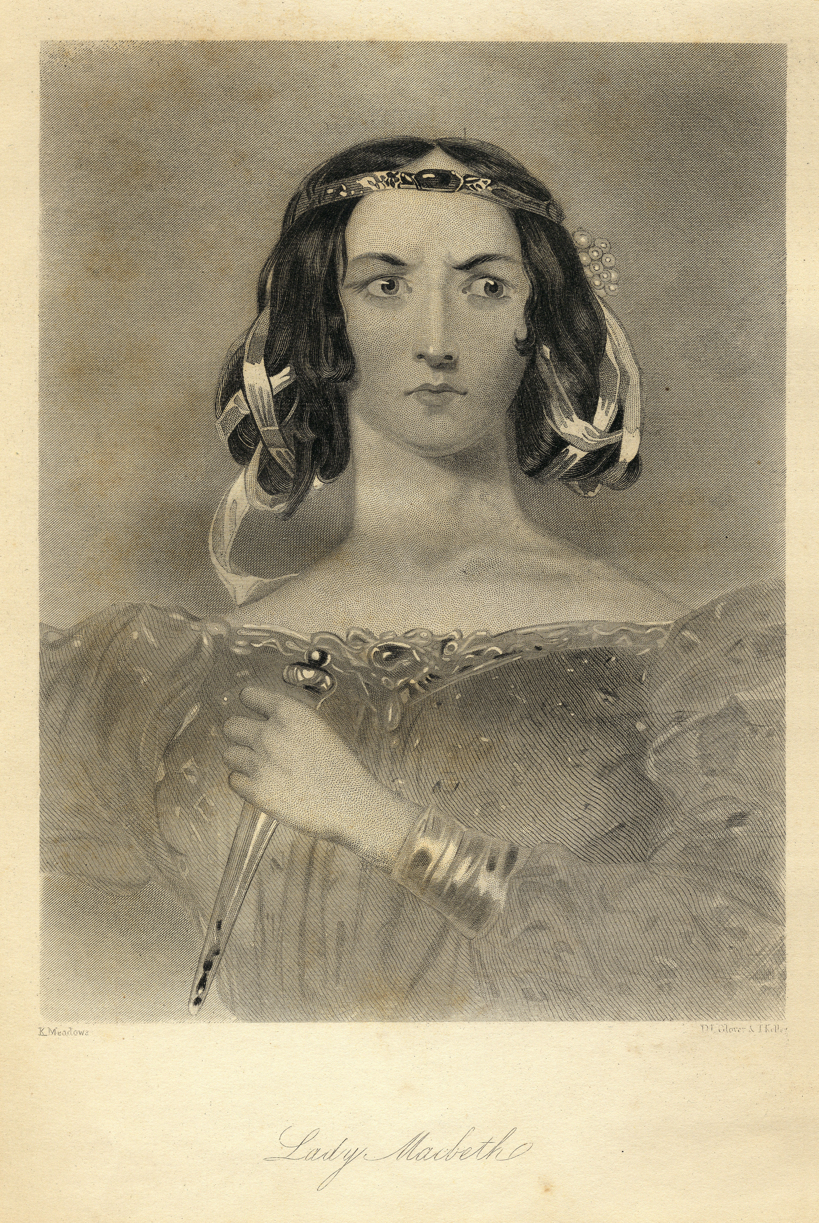 From a 19th century book of Shakespeare's plays